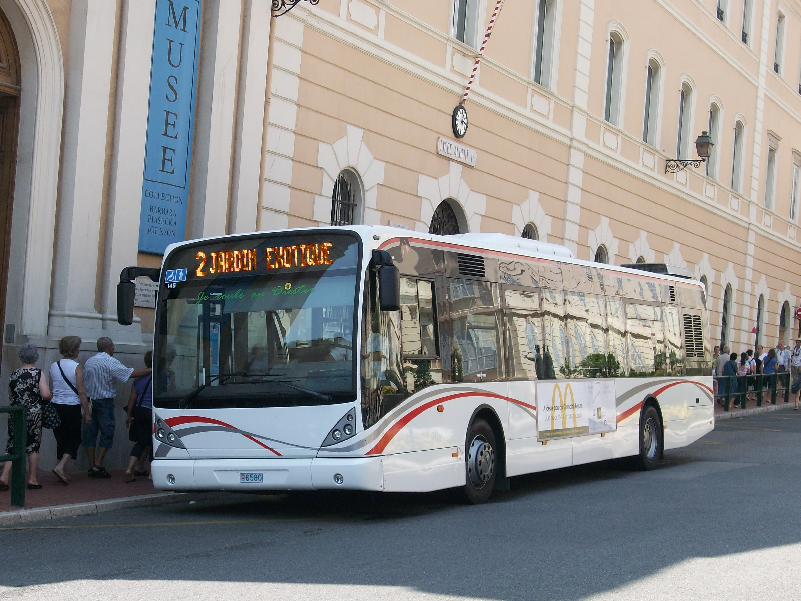 A newA330 from Van Hool